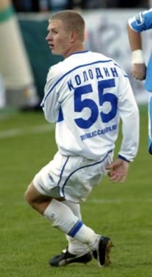 Denis Kolodin in action for FC Krylia Sovetov Samara